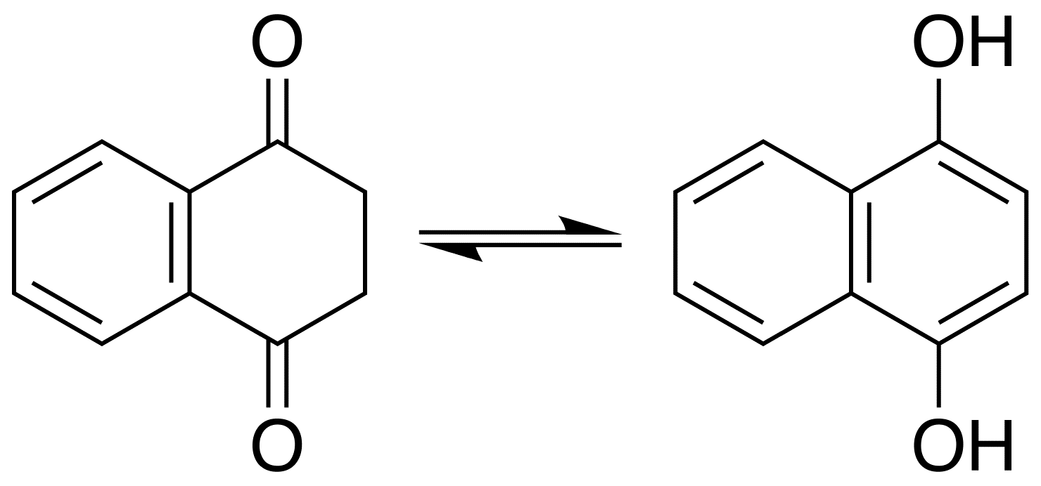 Skeletal structures for the equilibrium reaction of tautomerization between tetrahydronaphthalenedione (1,4-dioxotetralin) and 1,4-naphthalenediol.